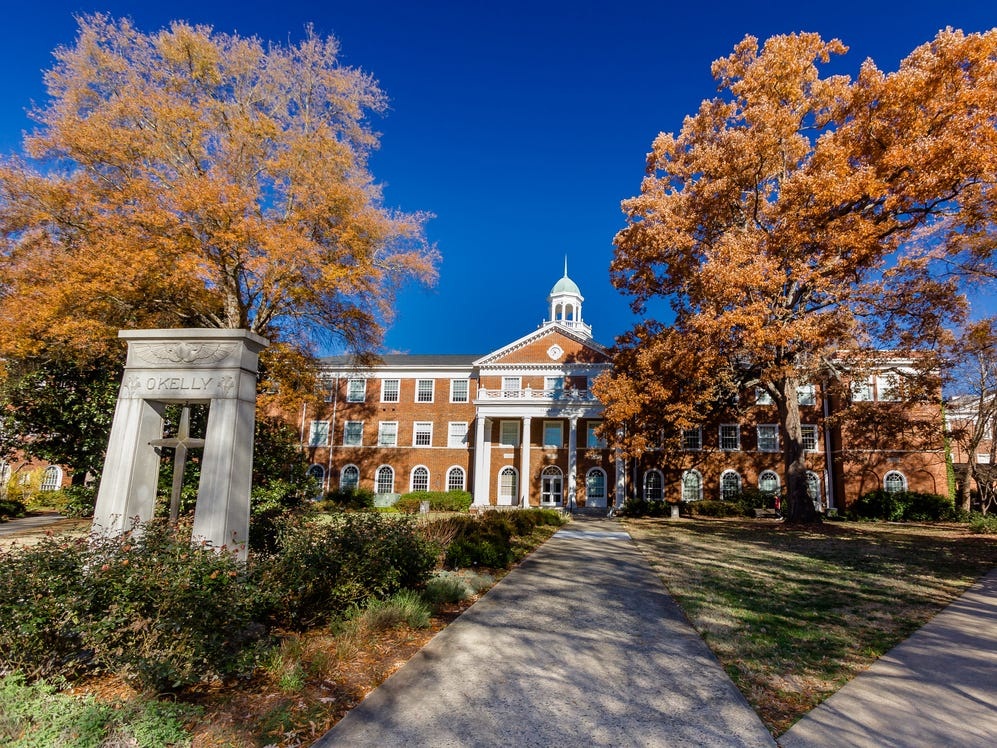 Elon university